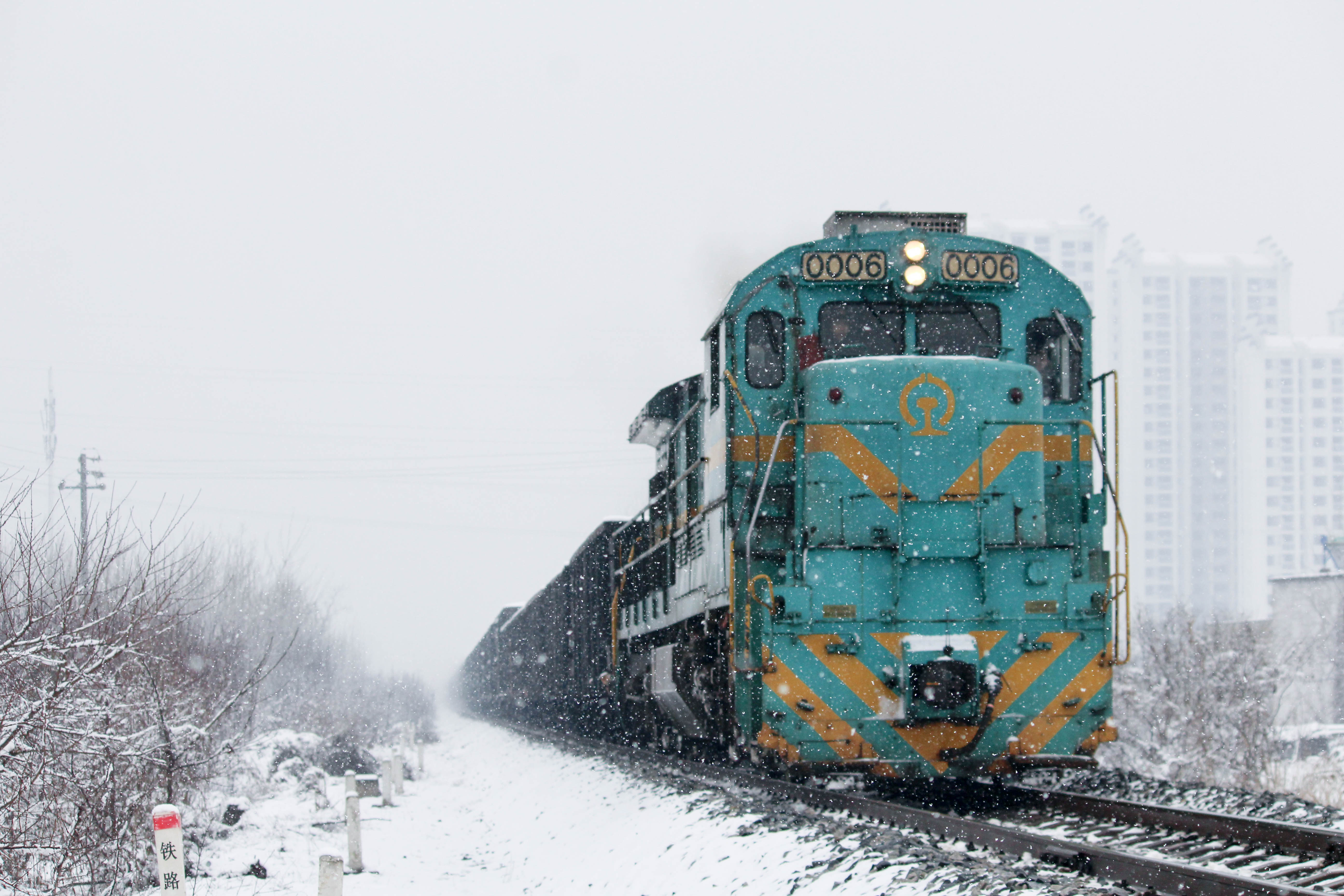 中文（中国大陆）: ND5-0006 in Jiangqiao Station